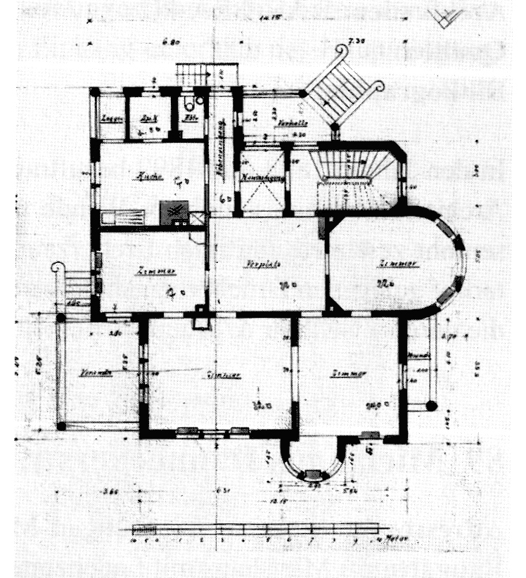 Villa Clausnitzer Gerokstr. 1 Stuttgart, Architekten Eisenlohr und Weigle Grundriss von 1898